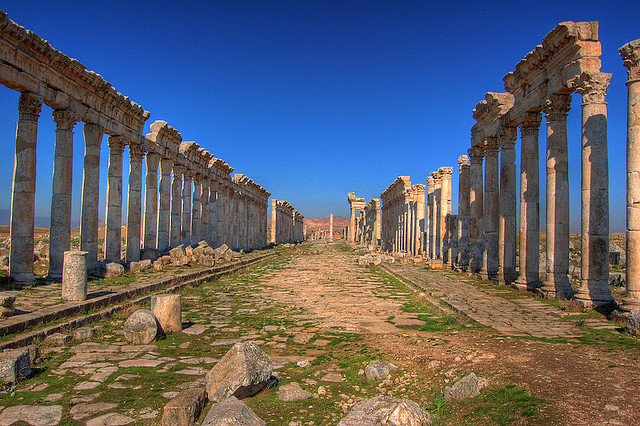 The cardo maxima of Apamea, Syria.